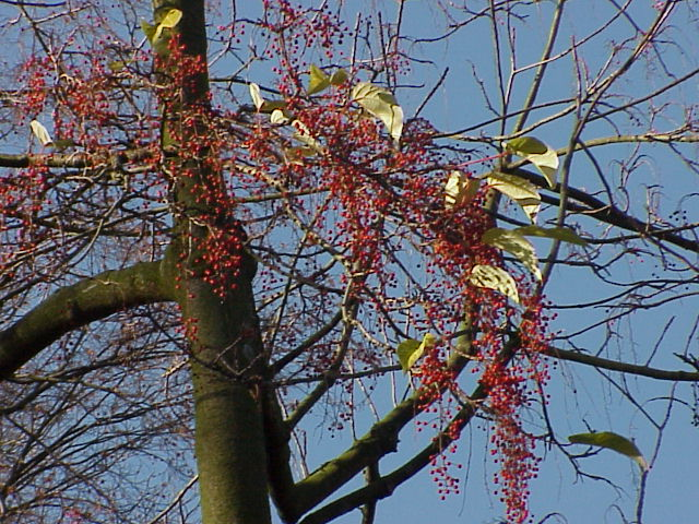 Species: Idesia polycarpa Family: Flacourtiaceae Image No. 1